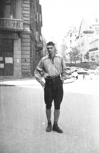 Eugeniusz Lokajski, a picture taken during the Warsaw Uprising